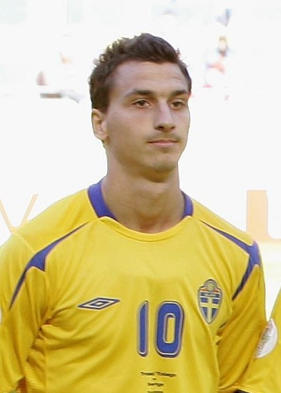 Zlatan Ibrahimović at the 2006 FIFA World Cup